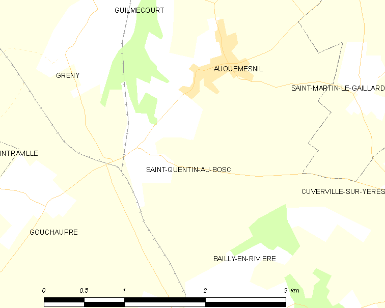 Map of French municipality Saint-Quentin-au-Bosc